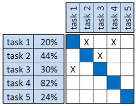 Design Structure Matrix (binary) with weights of elements as attributes